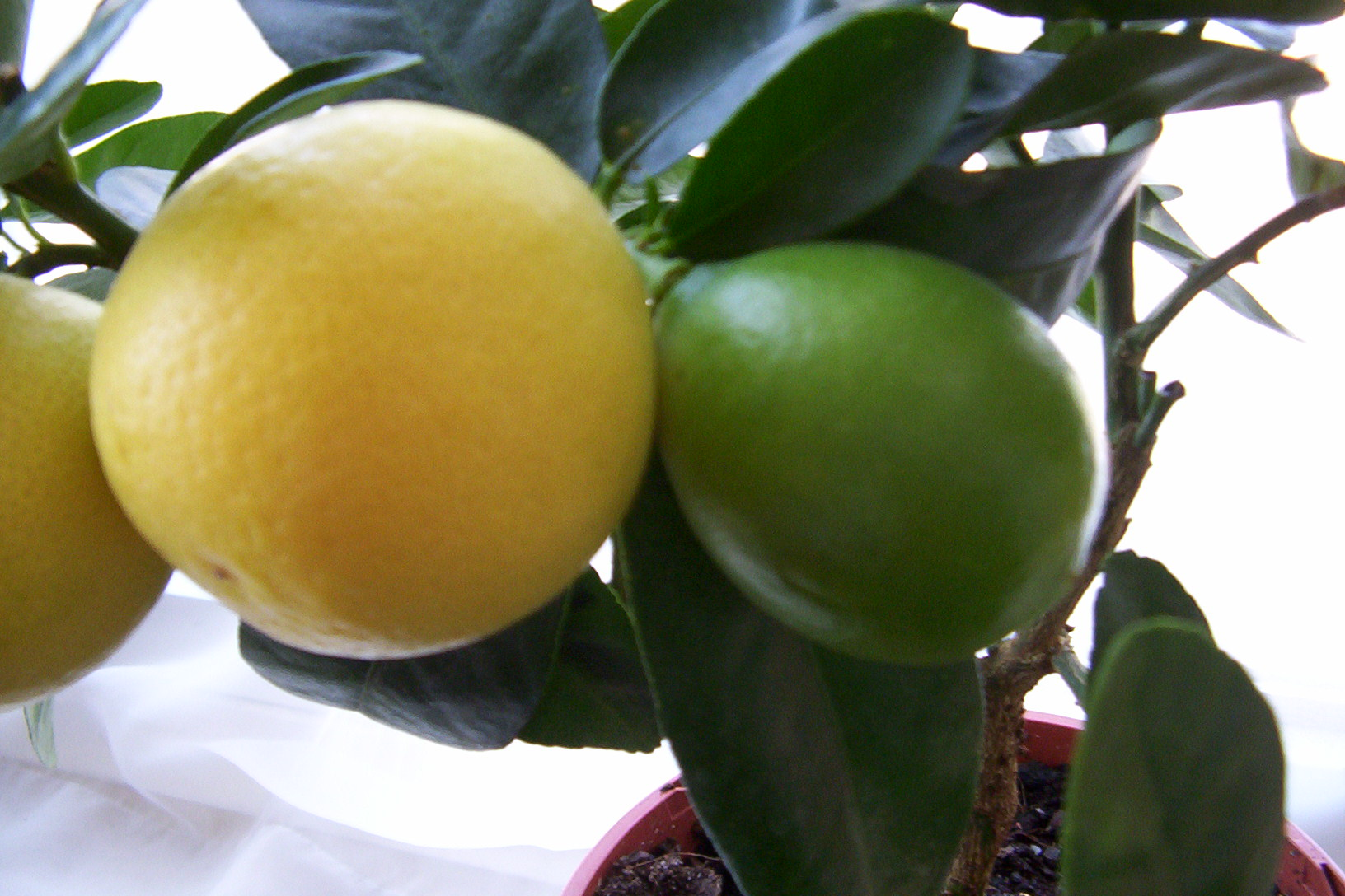 Fruit of the hybrid citrus plant Limequat.